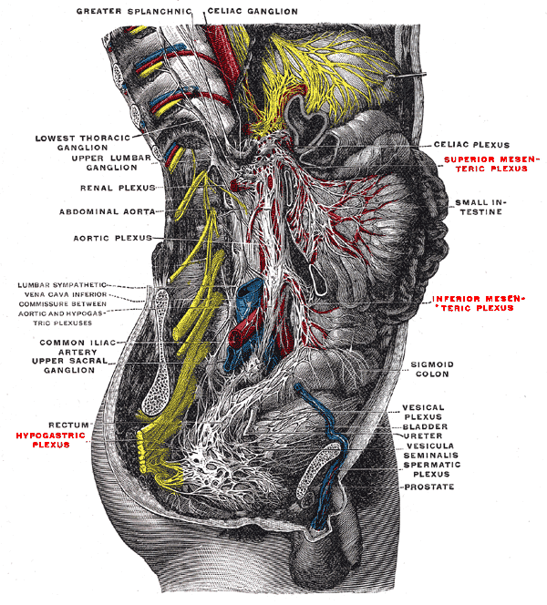 Lower half of right sympathetic cord, plexus. (Testut after Hirschfeld).